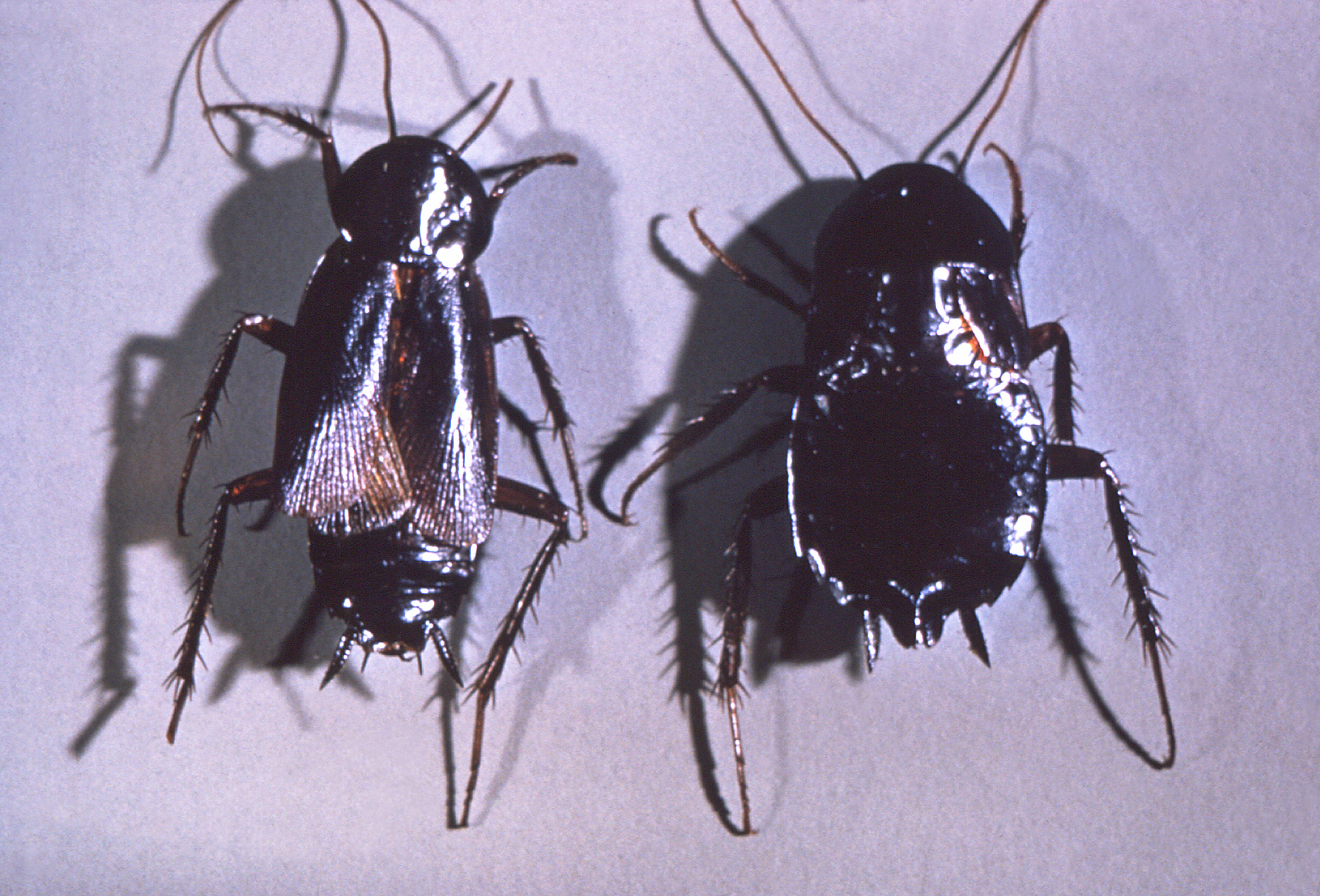 Male and Female Blatta orientalis, taken from the Public Health Image Library (PHIL) of the Center of Desease Control (ID#:5462). Original text to image: These Oriental cockroaches, Blatta orientalis, were photographed during a study of migrant labor camp disease vectors.